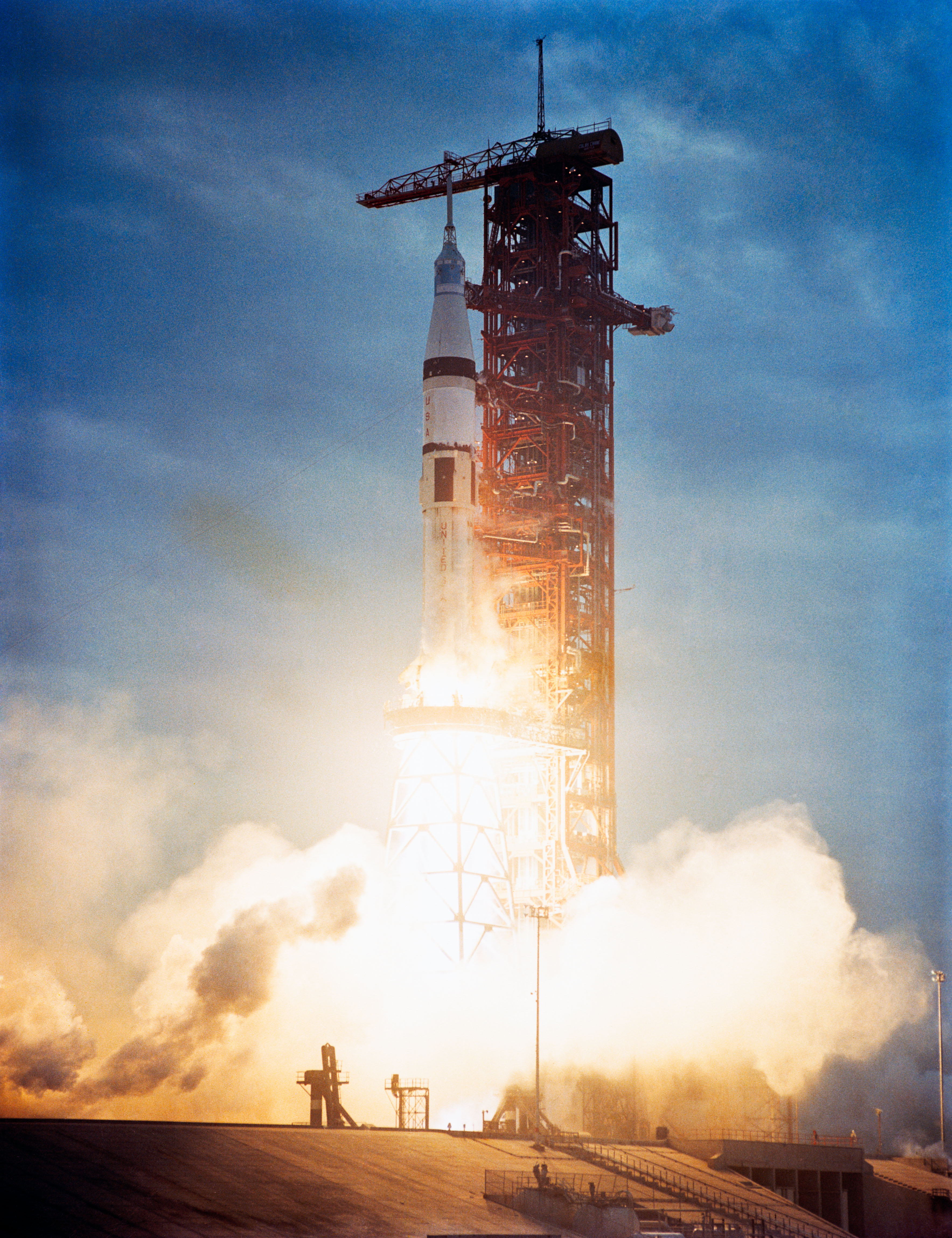 (July 28, 1973) On July 28, 1973, Skylab 3 launched from the Kennedy Space Center for a 2 month mission in Skylab, America’s first space station. The crew included Commander Alan Bean, Pilot Jack Lousma, and Scientist Owen Garriott. The three men continued maintenance of the space station that was started by Skylab I. They also performed scientific and medical experiments, and conducted 3 spacewalks. The mission doubled the record for time spent in space, previously set by Skylab 2. Image # : S73-32570